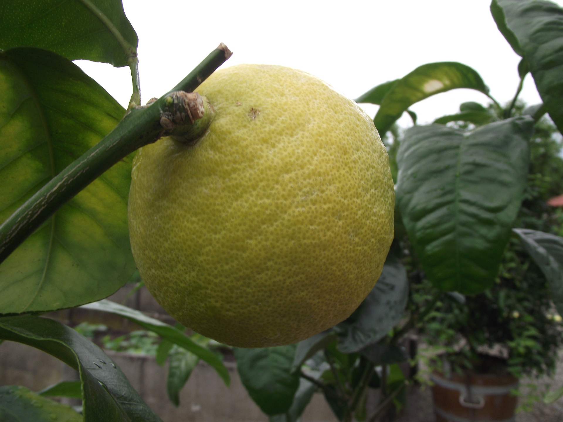 Bergamot orange: Fruit